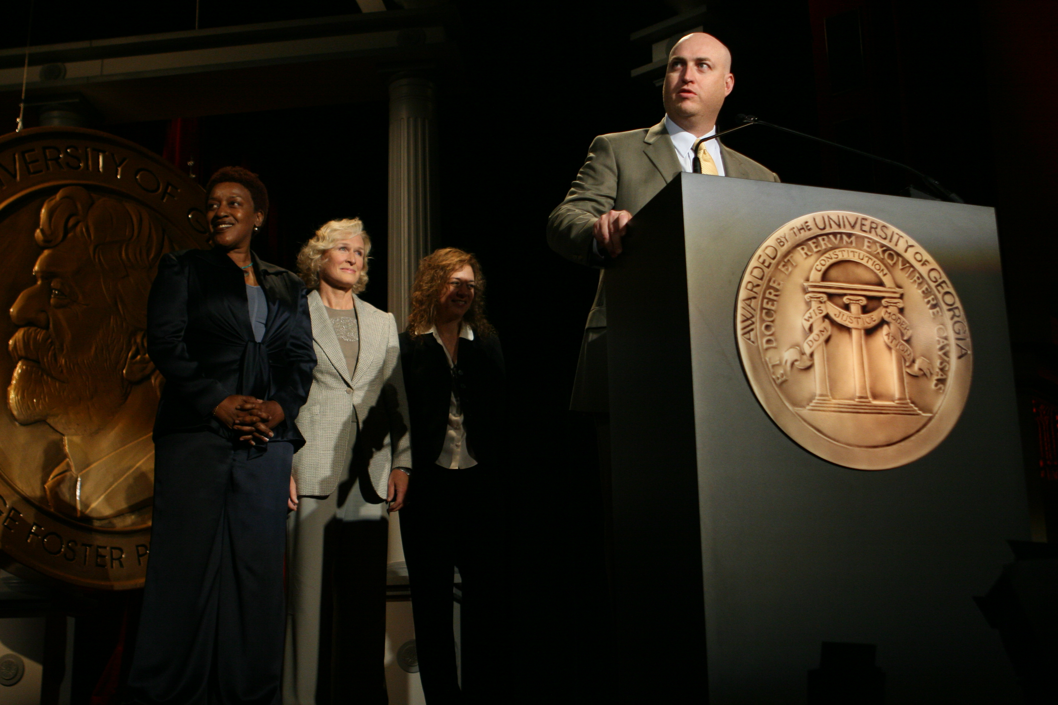 Shawn Ryan accepting the Peabody Award for The Shield. He is on stage with C.C.H. Pounder, Glenn Close and Cathy Cahlin Ryan.